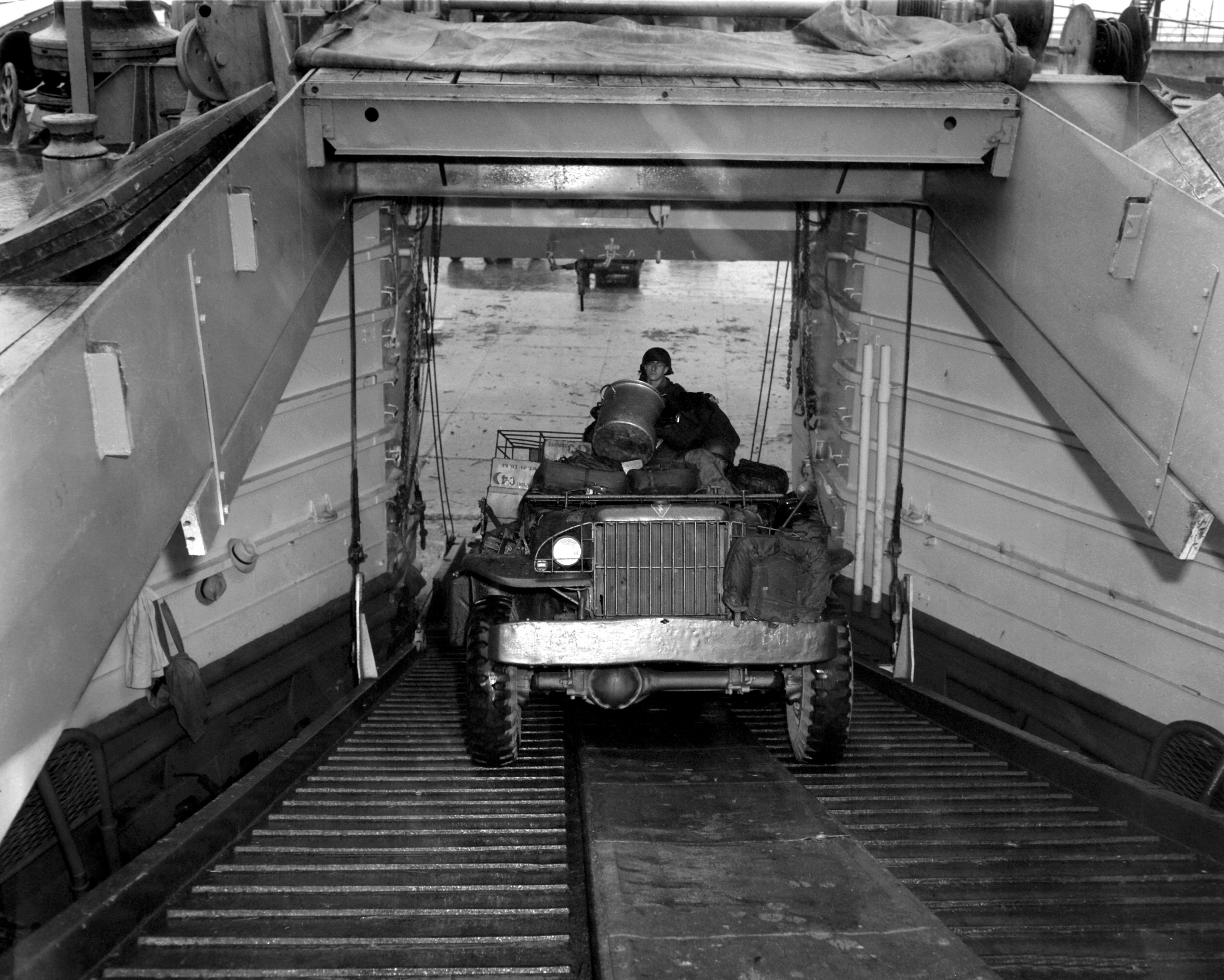 A vehicle of the U.S. Army’s 25th Infanty Division drives upt the ramp of an U.S. Navy tank landing ship (LST) at Sasebo, Japan, prior to departure for Korea on 12 July 1950.